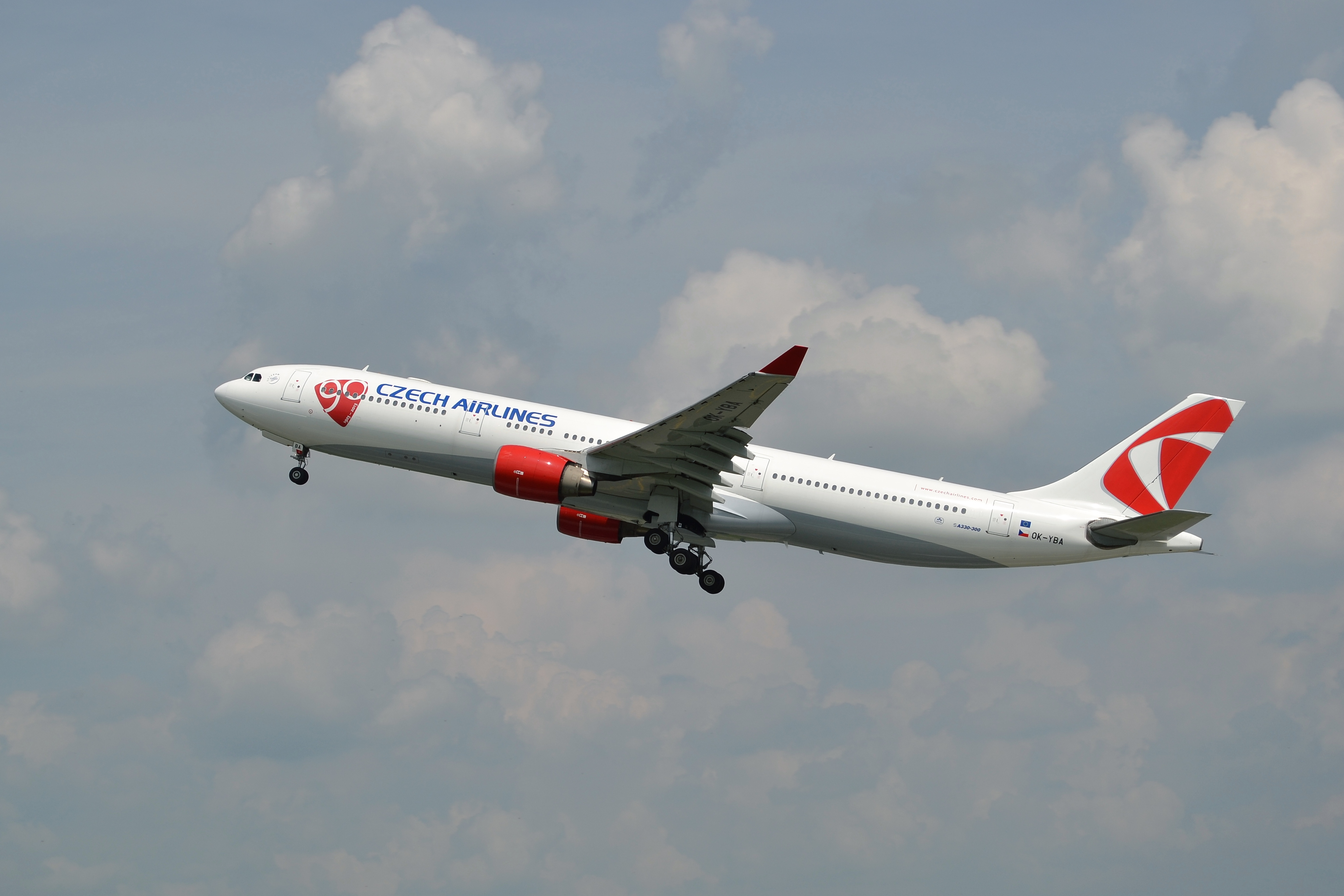 Airbus A330-300 OK-YBA of Czech Airlines takes off from Václav Havel Airport Prague, Czech Republic.